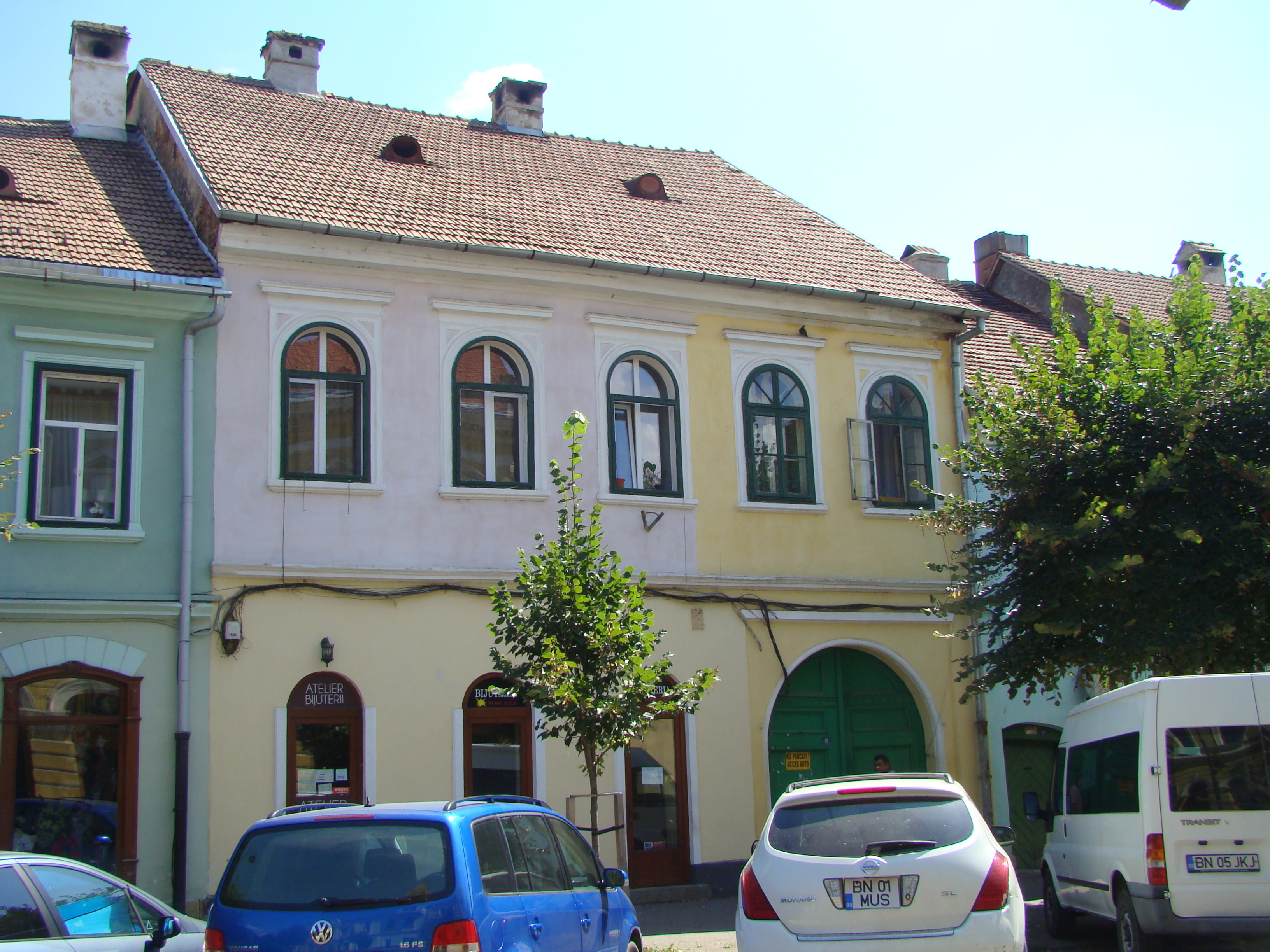 House, historic monument, in Bistrița, Gheorghe Șincai street 15